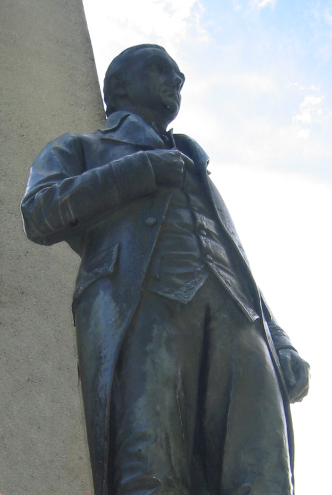 Statue of Carsten Anker by artist Jo Visdal